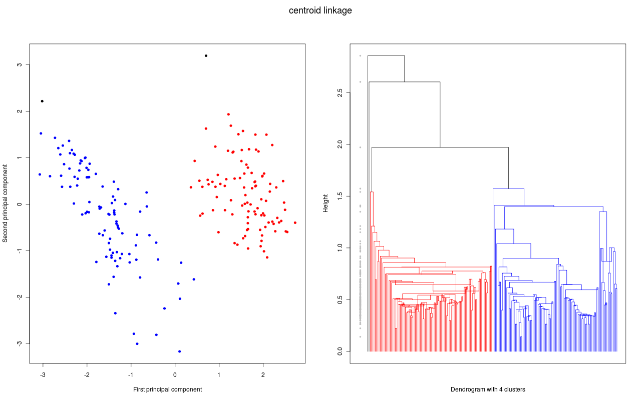 First two principal components and dendrogram for centroid linkage in hierarchical clustering.